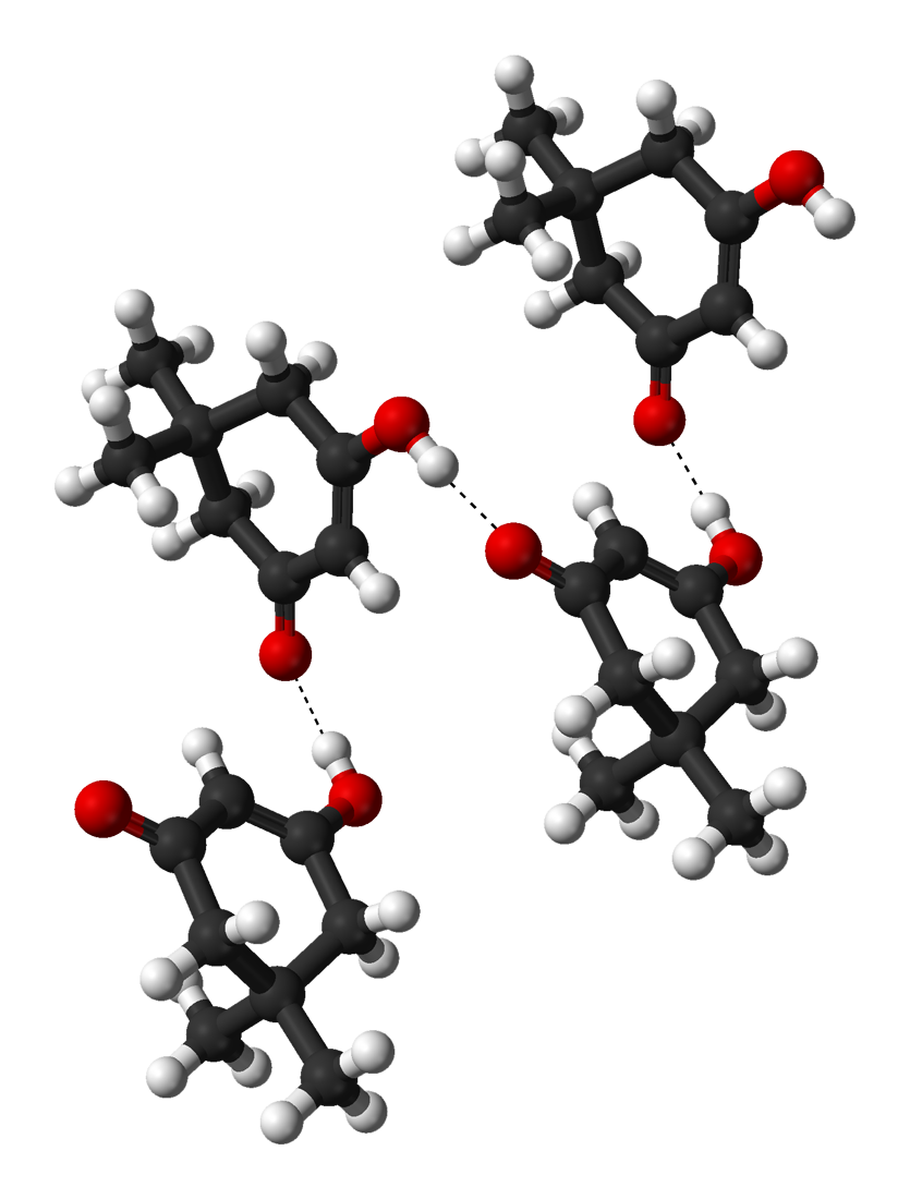 Ball-and-stick model of part of a hydrogen-bonded dimedone chain, as found in the crystal structure. X-ray crystallographic data from M. Bolte and M. Scholtyssik (October 1997). "Dimedone at 133K". Acta Cryst. C53 (10): IUC9700013. Model constructed in CrystalMaker 8.1. Image generated in Accelrys DS Visualizer.